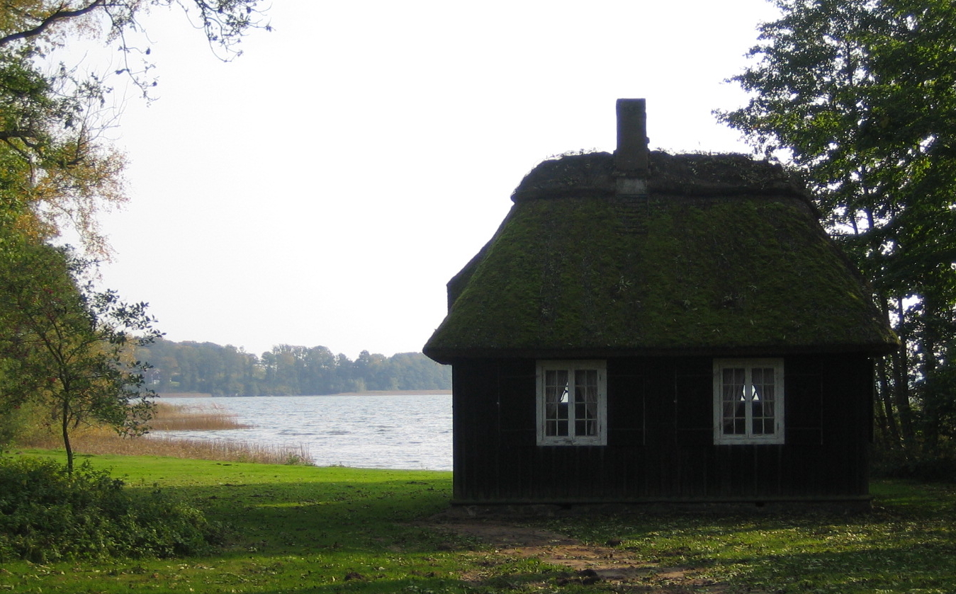 Playhouse from 1918 at Karsholm castle by lake Oppmannasjön, Skåne, Sweden